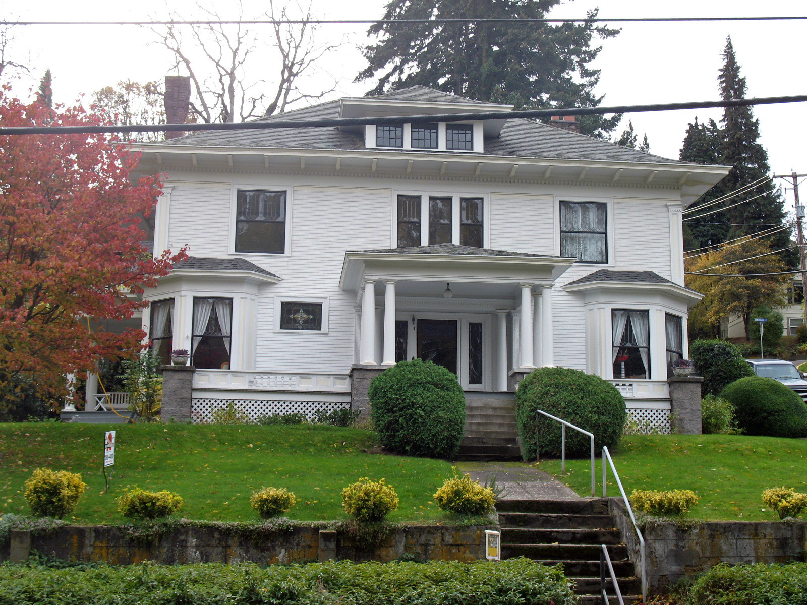 National Register of Historic Places listings in Hood River County, Oregon. Orrin B Hartley House, 1029 W State St, Hood River, OR. Photographed October 28, 2009 from the north side of W State St. near the intersection of 12th St.